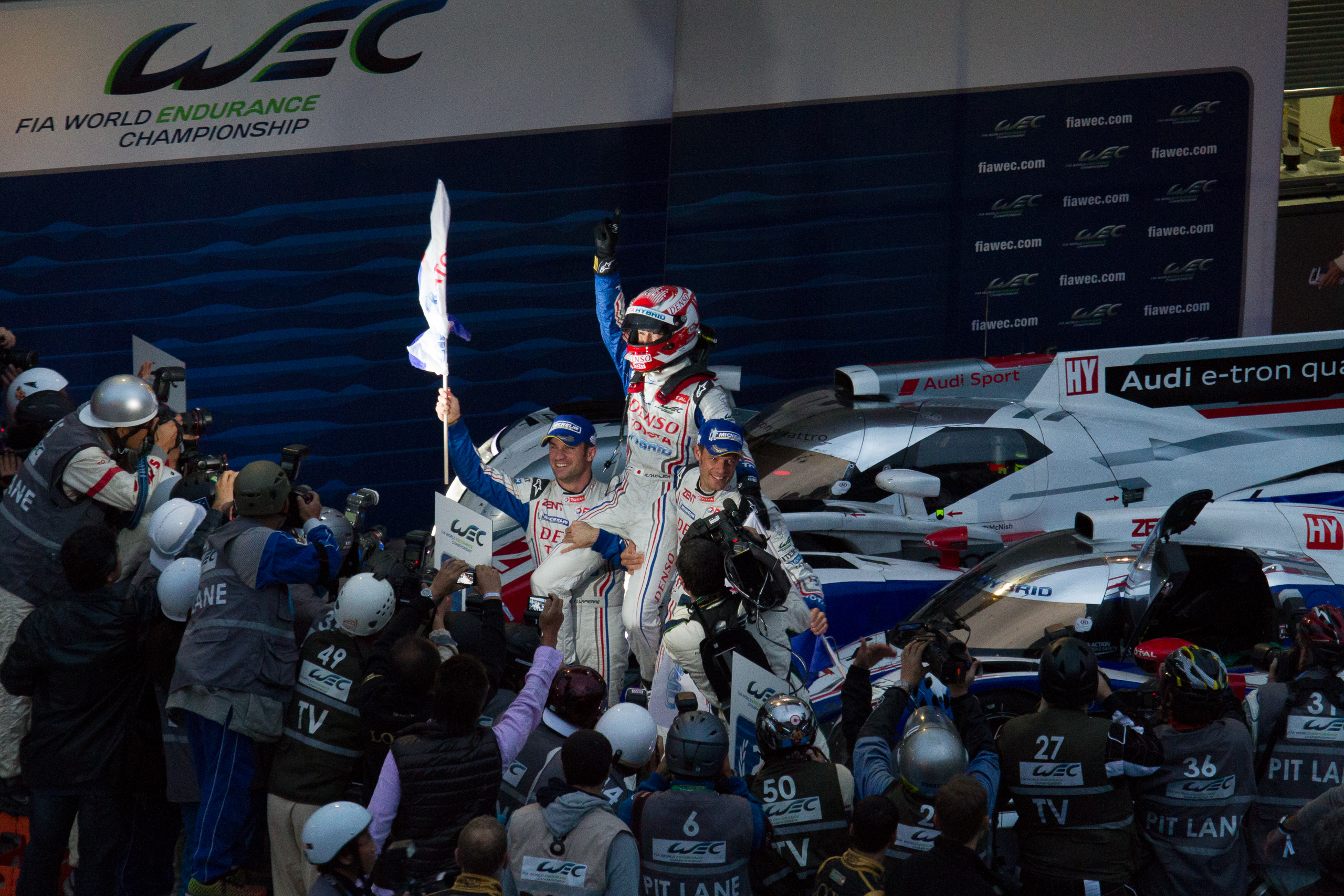 FIA World Endurance Championship 2012 Rd.7 6 Hours of Fuji: Toyota trio (from left to right: Nicolas Lapierre, Kazuki Nakajima, and Alexander Wurz) celebrate winning the race.